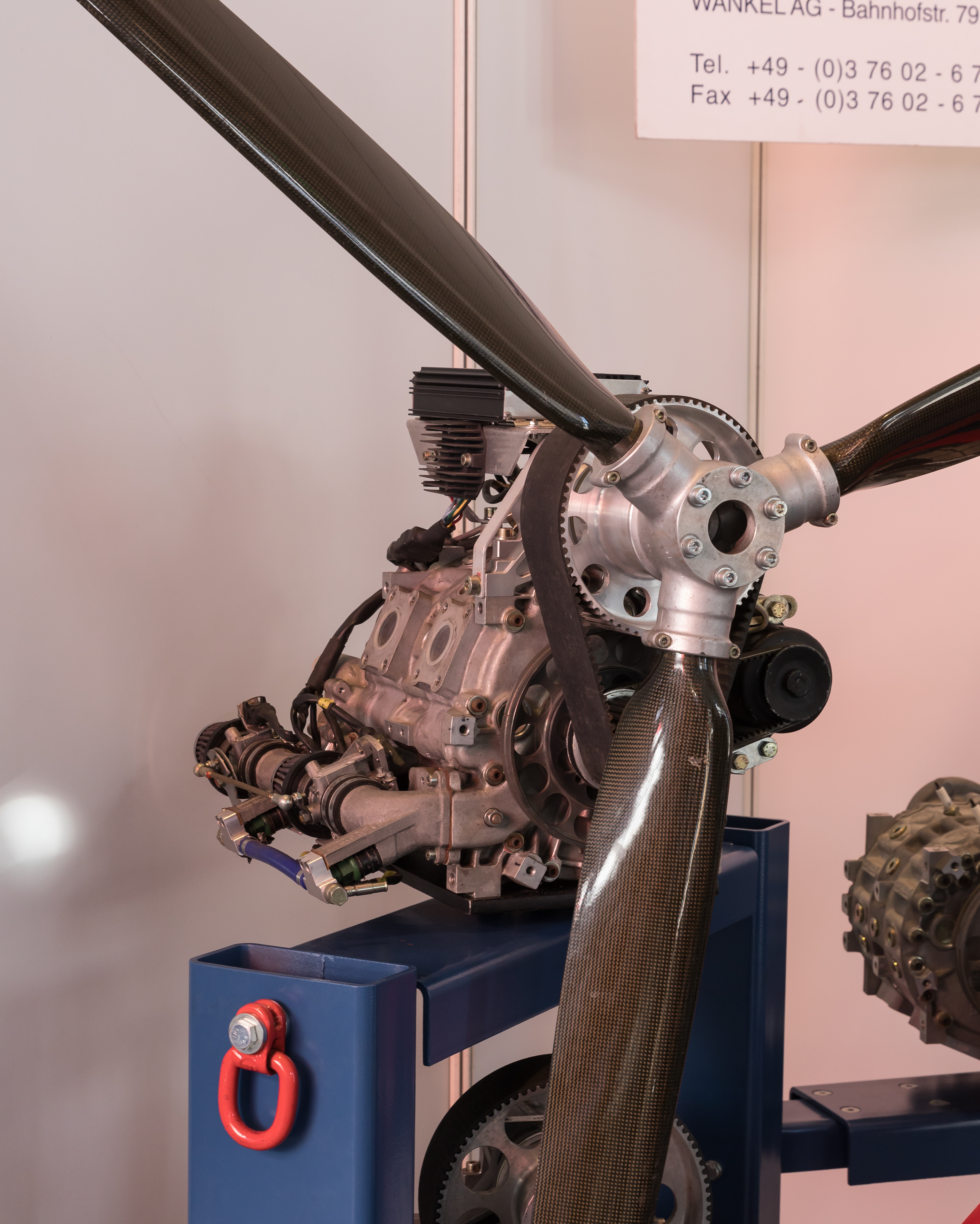 Wankel aircraft engine at AERO Friedrichshafen 2018